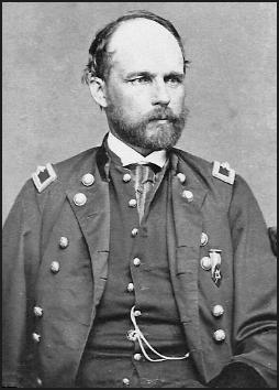 photo of George J. Stannard (1820-1886)